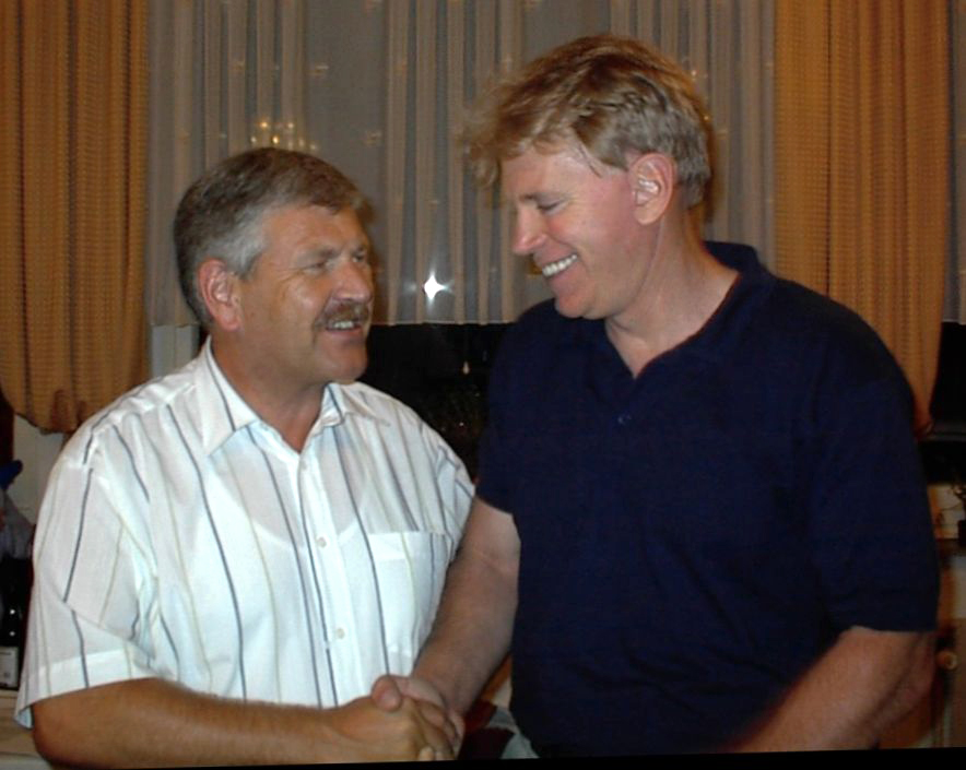 White nationalist leader David Duke (right), and the leader of the National Democratic Party of Germany (NPD), Udo Voigt (left), shaking hands in Saxony, Germany.